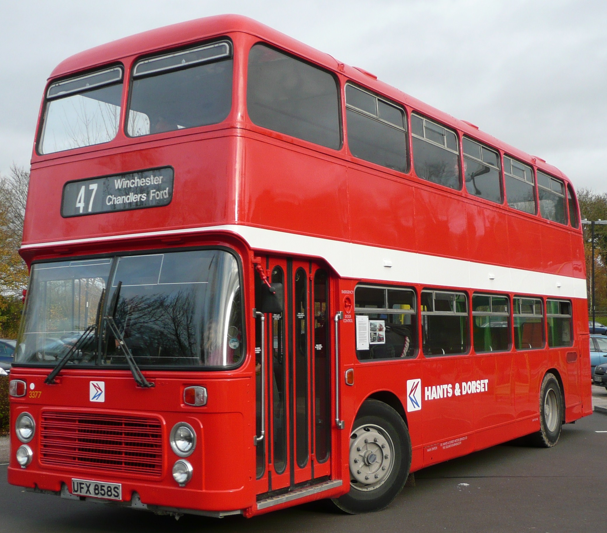 Hants & Dorset Motor Services' 3377 (UFX 858S), a Bristol VR at Winchester St Catherine's park and ride site at the Bluestar 1 event.